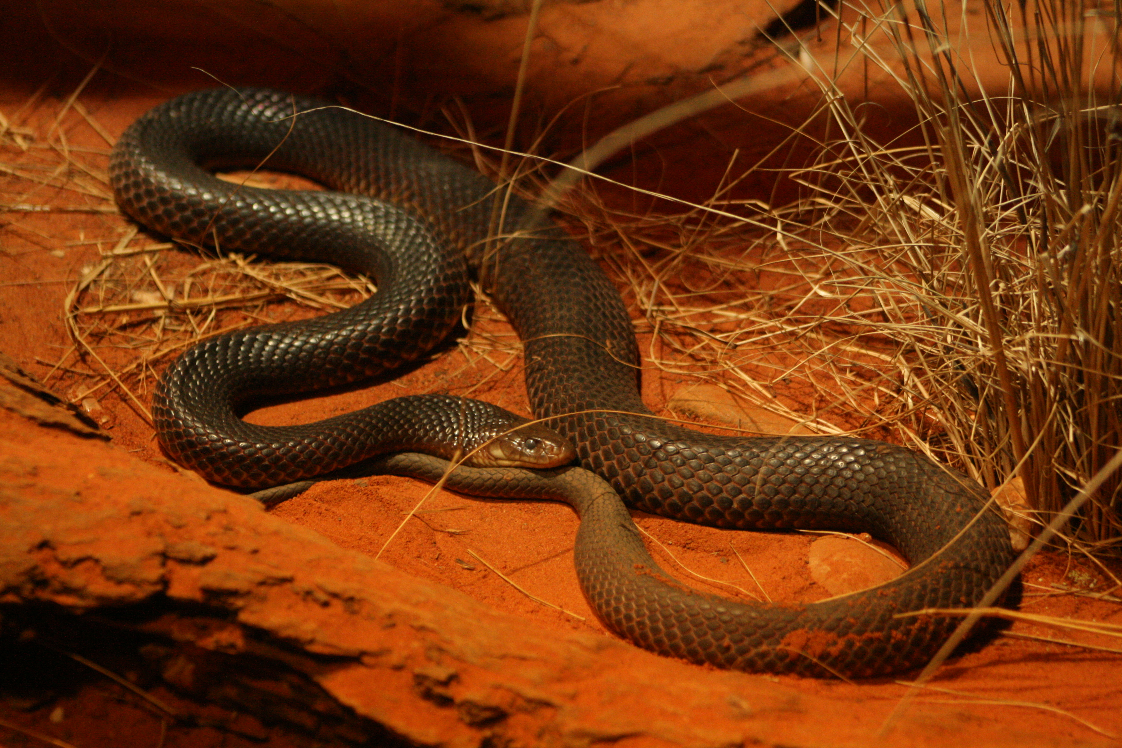 King Brown (Pseudechis australis), Sydney Wildlife Zoo, Australia